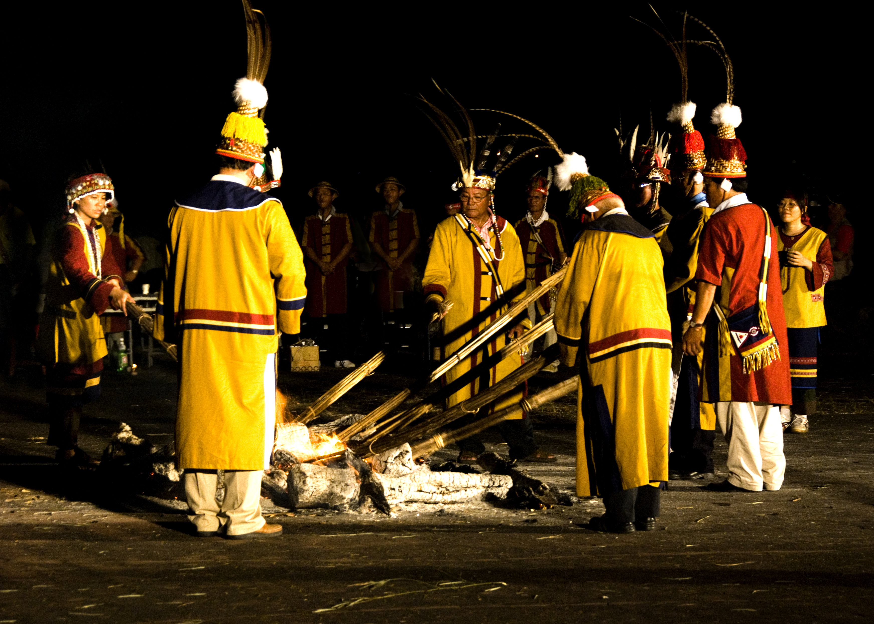 palamal-palikat tu lamal ku Lamal-dungy